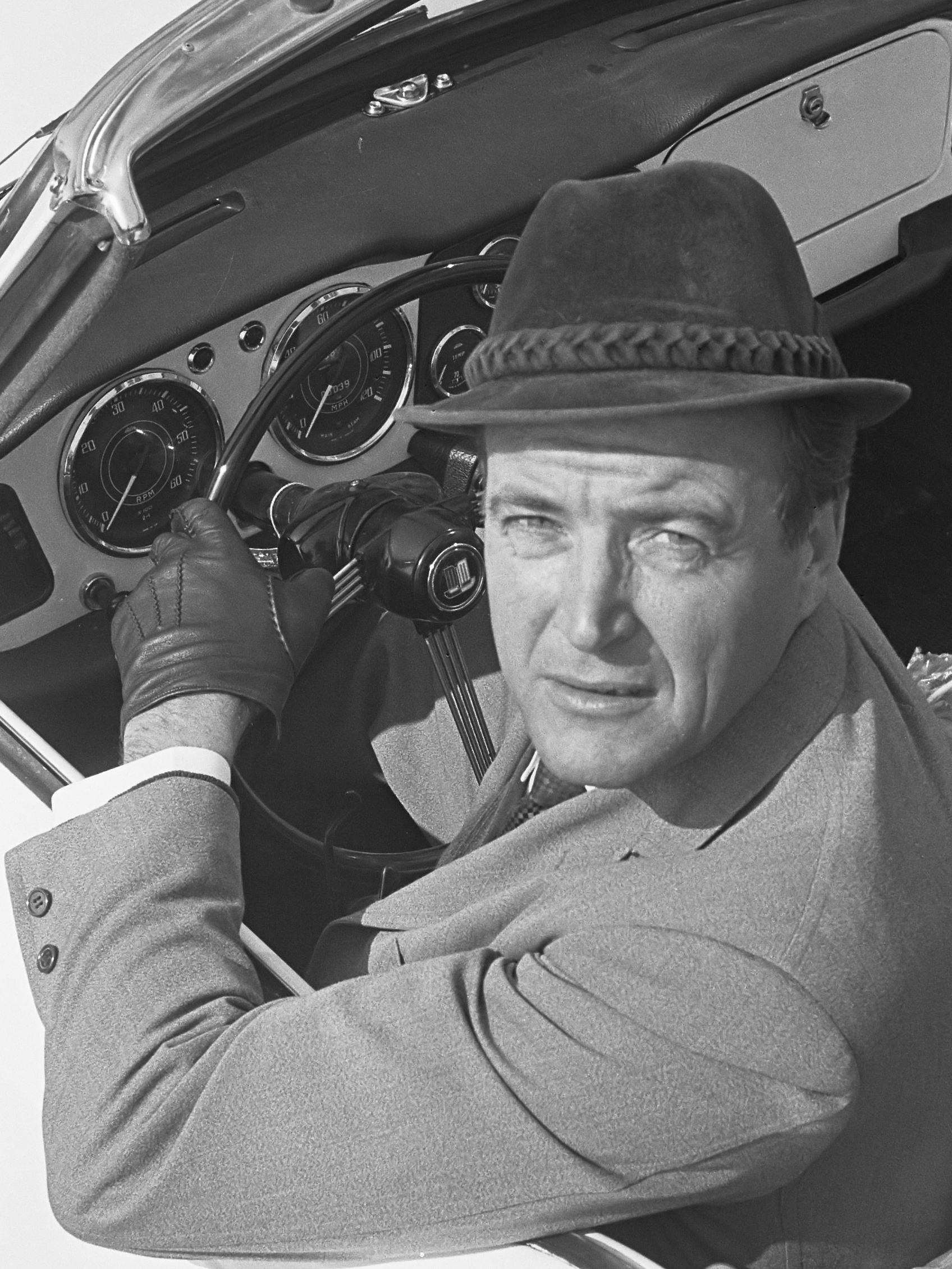 Nederlands-Amerikaanse filmster John van Dreelen in zijn sportauto 27 april 1964